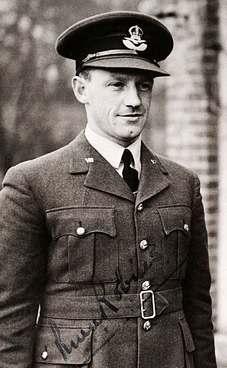 Test match cricketers in uniform featuring Pilot Officer Walter Robins at Lord's cricket ground in London, circa 1940.